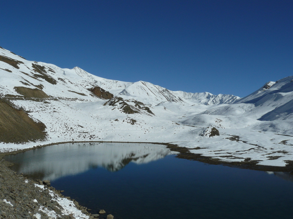 Third day: Saturday, 4th October 2008. Suraj tal is a very small lake that's approximately 4800 metres above sea level. It's pretty close to Baralacha La, but we turned back from here. We didn't climb down to the lake, because of all the snow around. This is the most remote spot I've ever been to; we spent 45 minutes there and in the whole duration there was just one truck passing by on NH21.